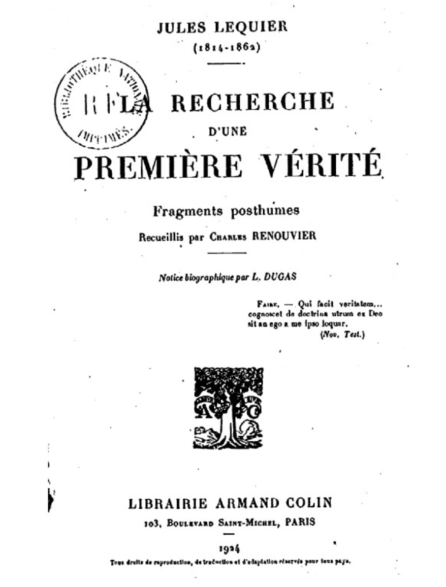 Book cover